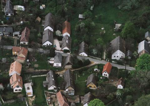 Nemesvita, Hungary, aerialphotography